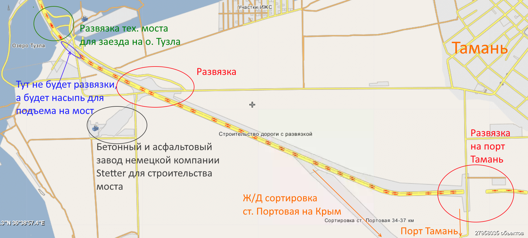 Taman link to Kerch Bridge